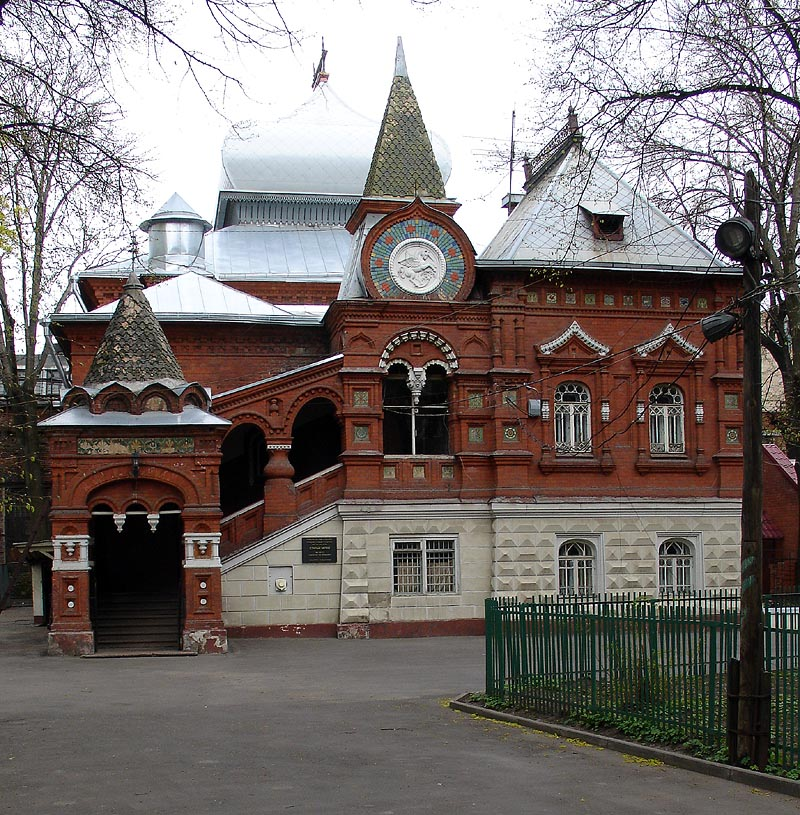 Timiryazev Museum, Moscow, old hall, view from South